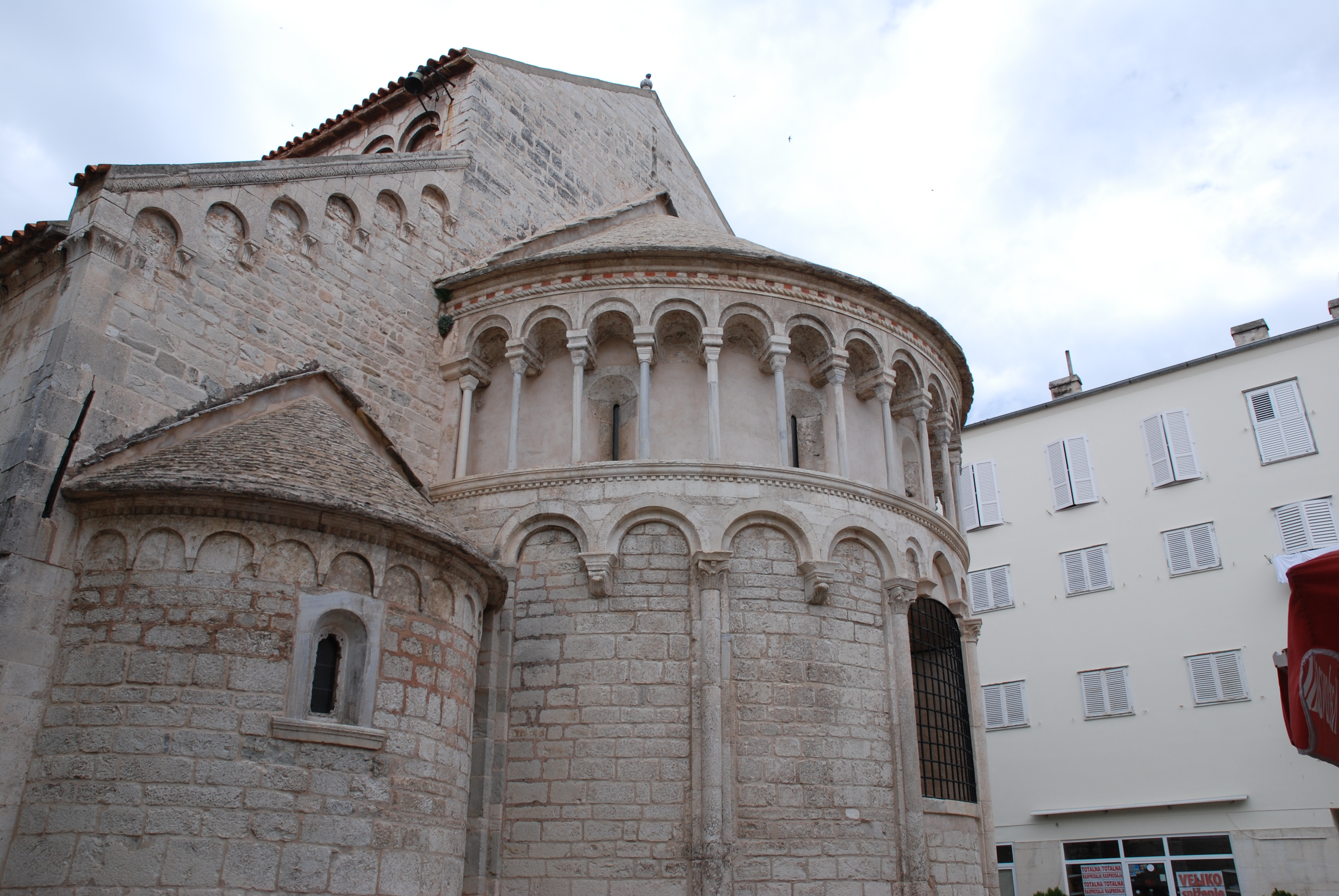 Romanesque apses of st. Krsevan in Zadar